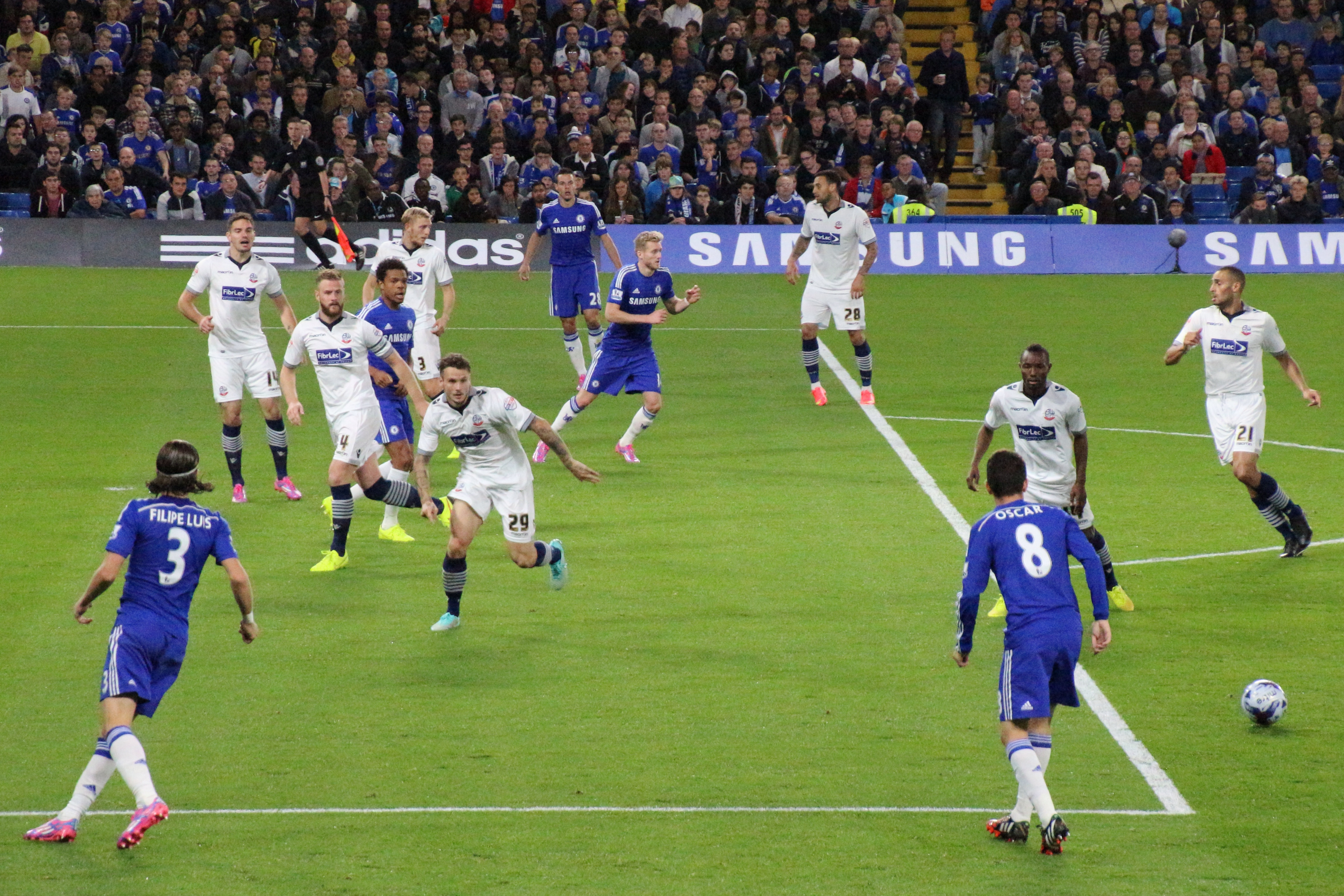 Chelsea 2 Bolton Wanderers 1 Chelsea progress to the next round of the Capital One cup